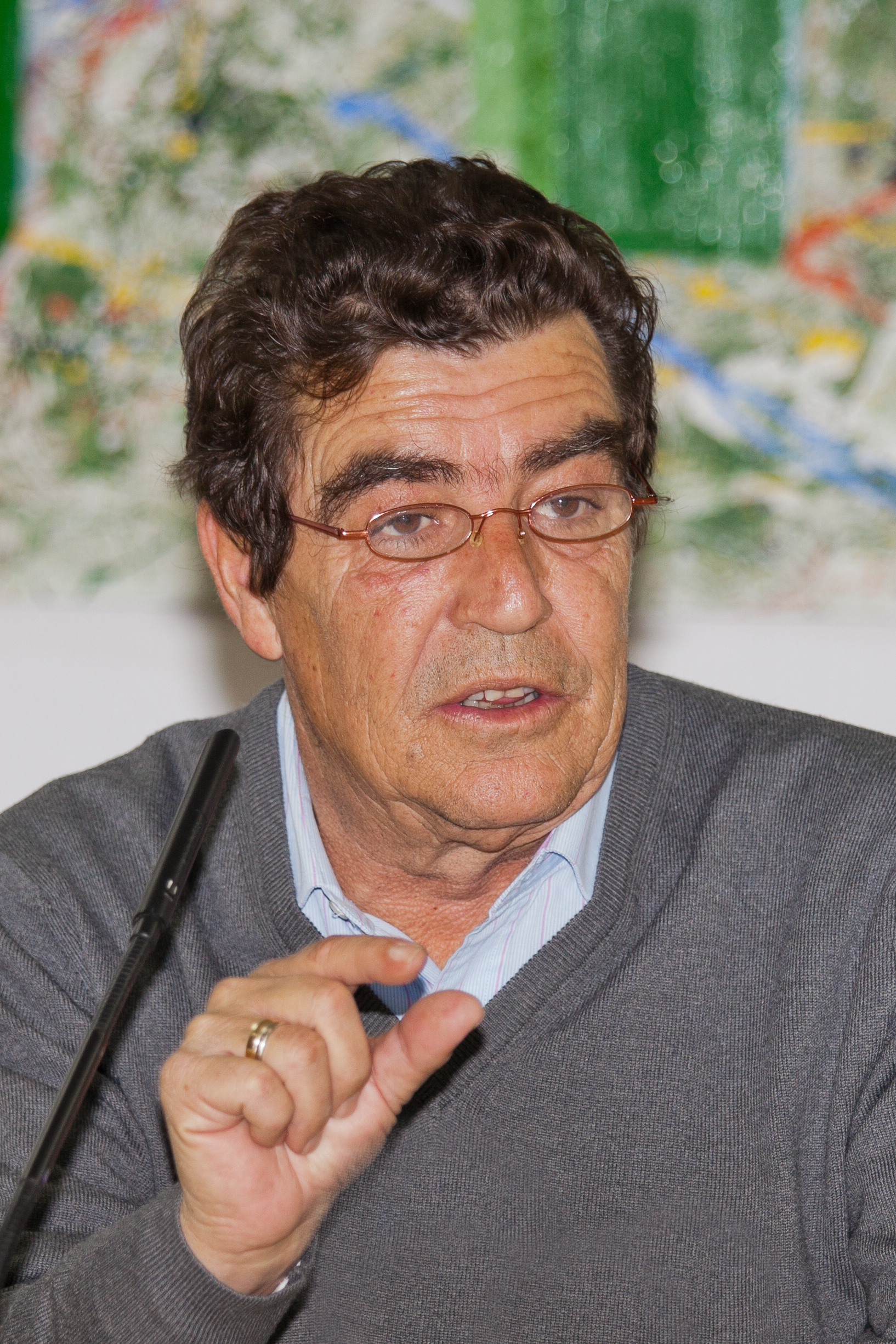 Emilio Calatayud, Granada juvenile court judge. Conference at IES Manuel García Barrod, A Estrada, Galicia (Spain)